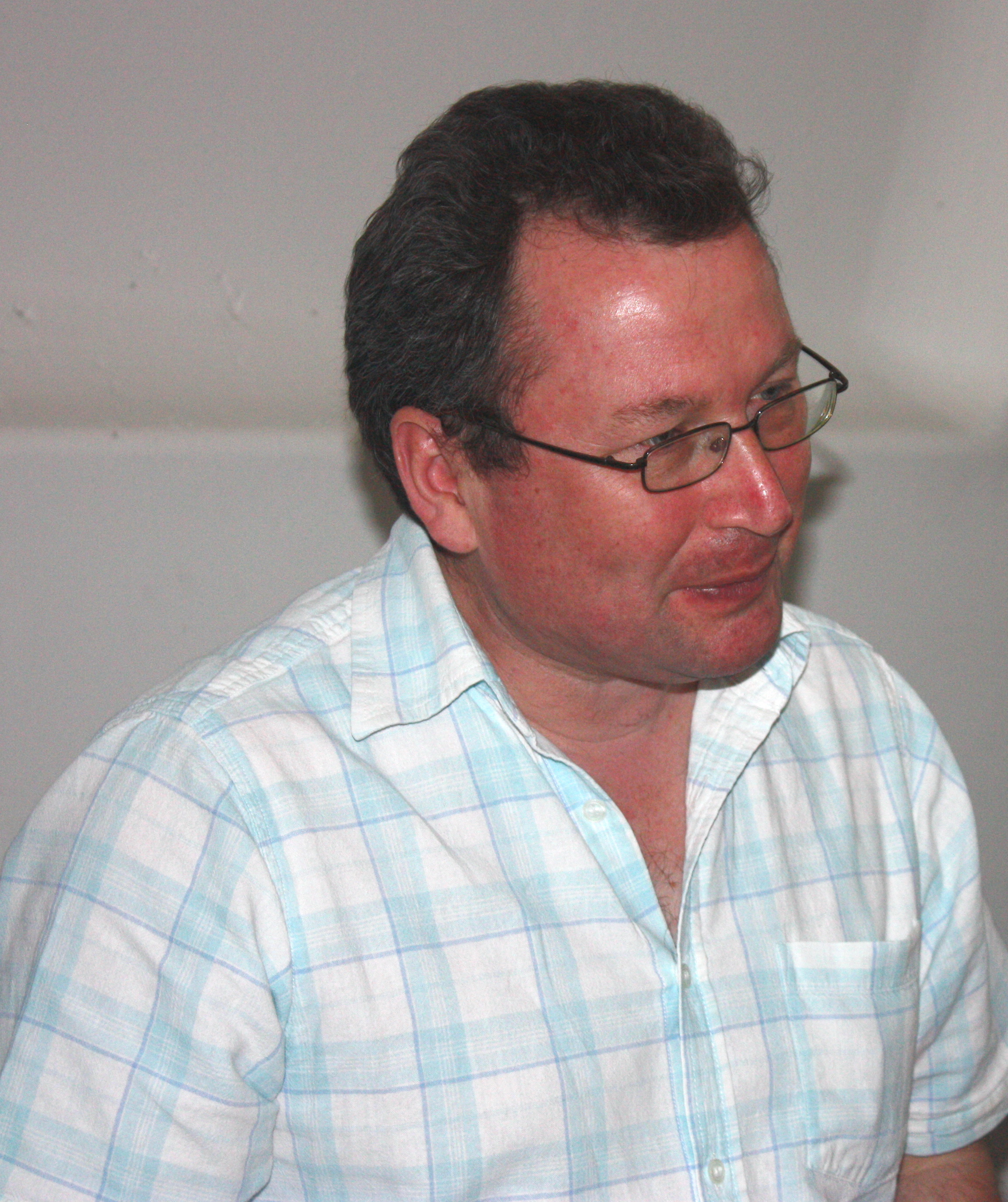 Boardgame designer Martin Wallace, at game fair Play 2012, Modena, Italy